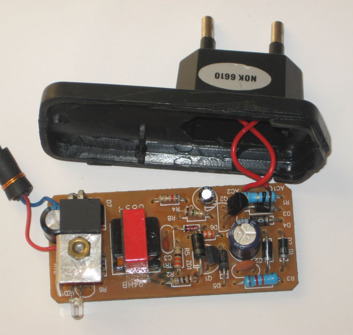 Switched-mode power supplier inside